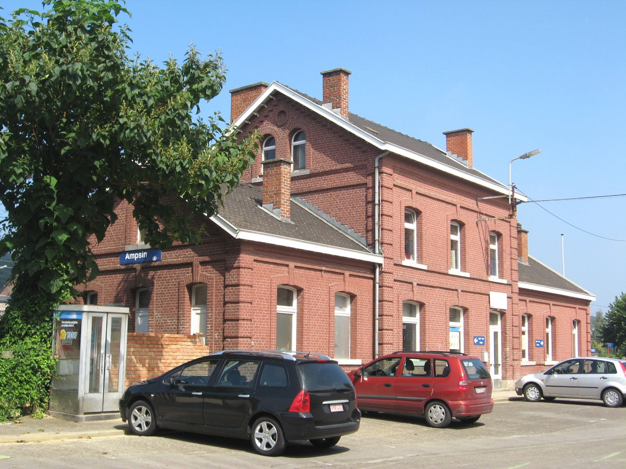 Train station of Ampsin, Amay, Liège, Belgium